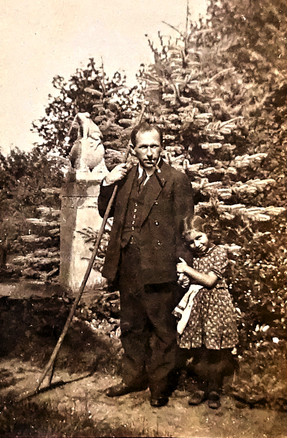 Otto Bamberger (1885–1933) with his daughter Ruth (1914–1983) in the garden of their villa "Sonnenhaus" (Solar House) in Lichtenfels, Upper Franconia, Bavaria, Germany, Kronacher Strasse 19 (from 1937 numbered as 21). In the background the fountain with the sculpture of a Frog King on a globe